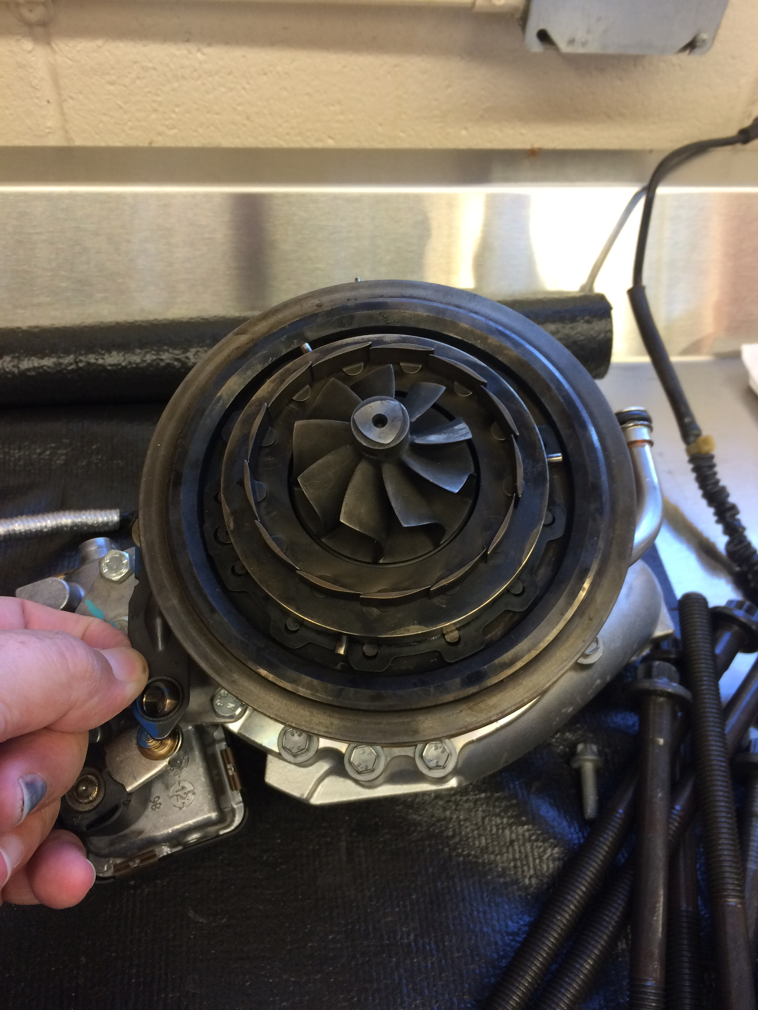 OM 642 VGT no boost position